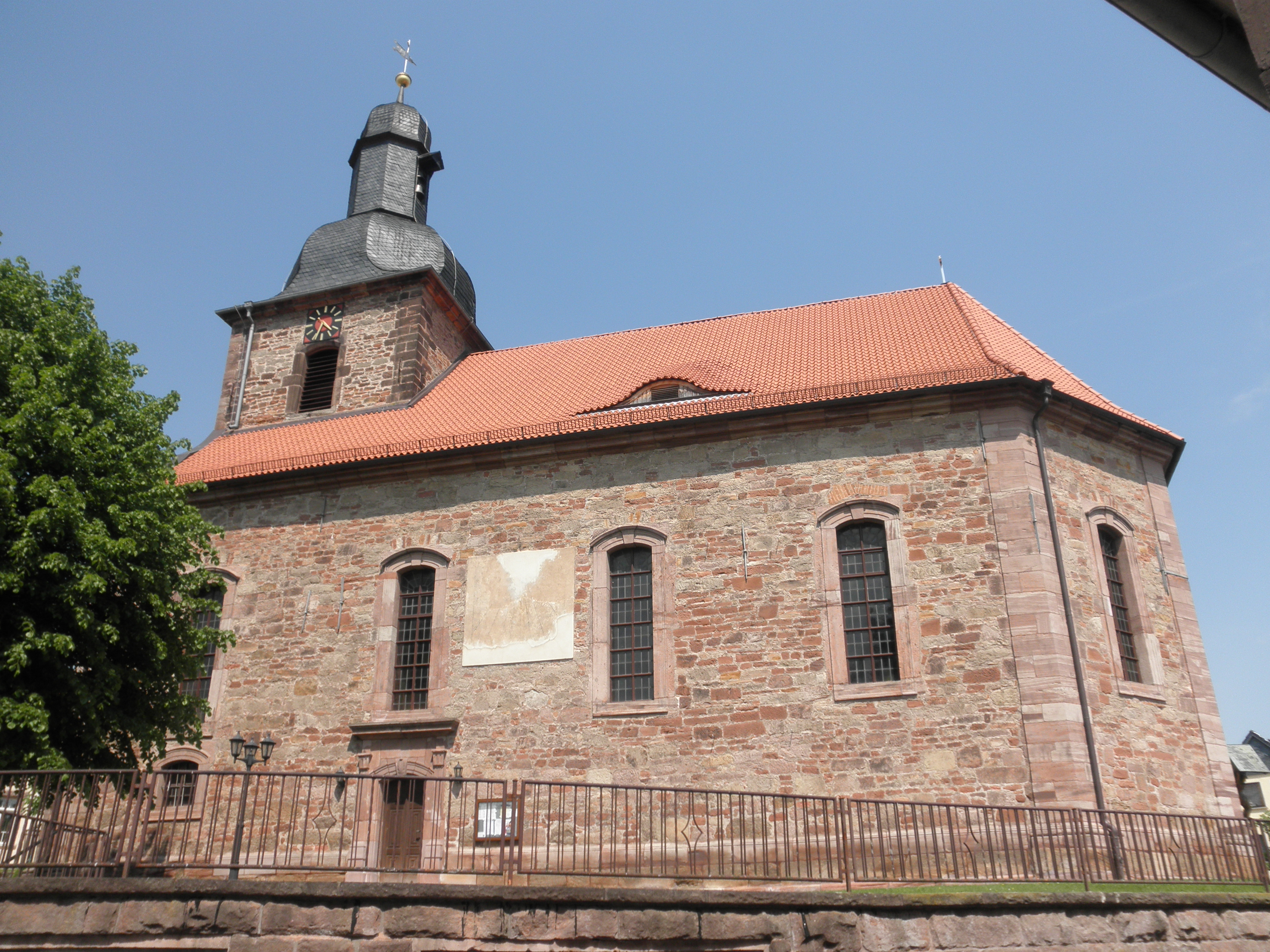 Church in Reinholterode in Thuringia